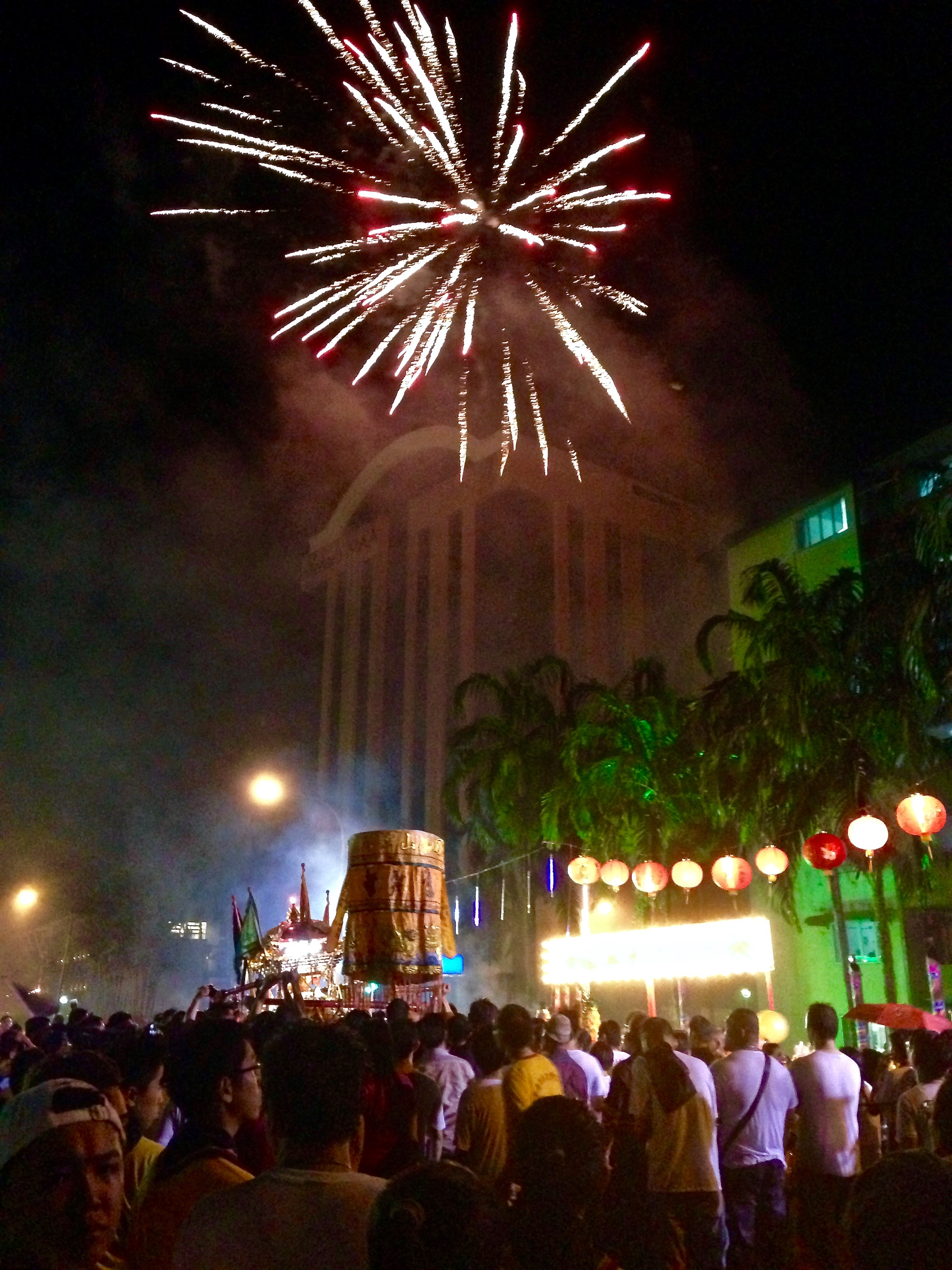 View of the parade of the Hong San Si Temple held annually on the 22nd day of the second month of the Chinese lunar calendar.